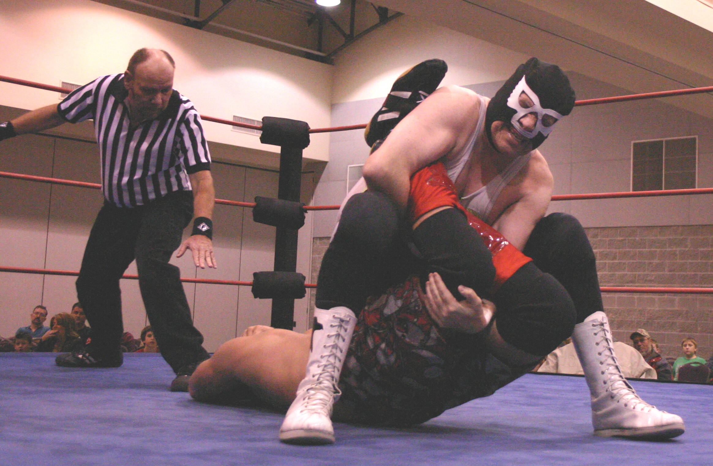 The Nighthawk applies the Rivera Cloverleaf wrestling hold.